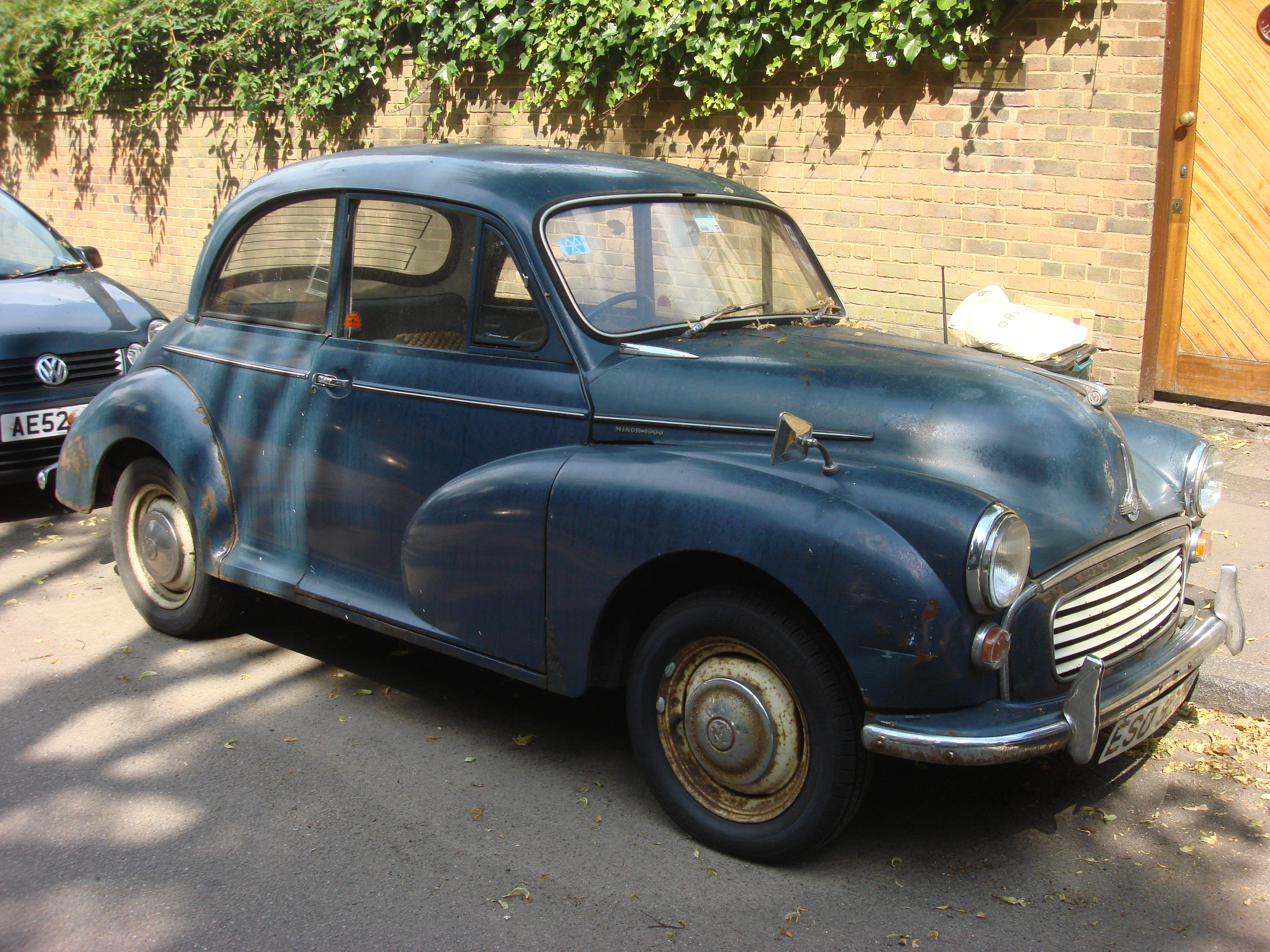 A Morris Minor 1000, in Hampstead London